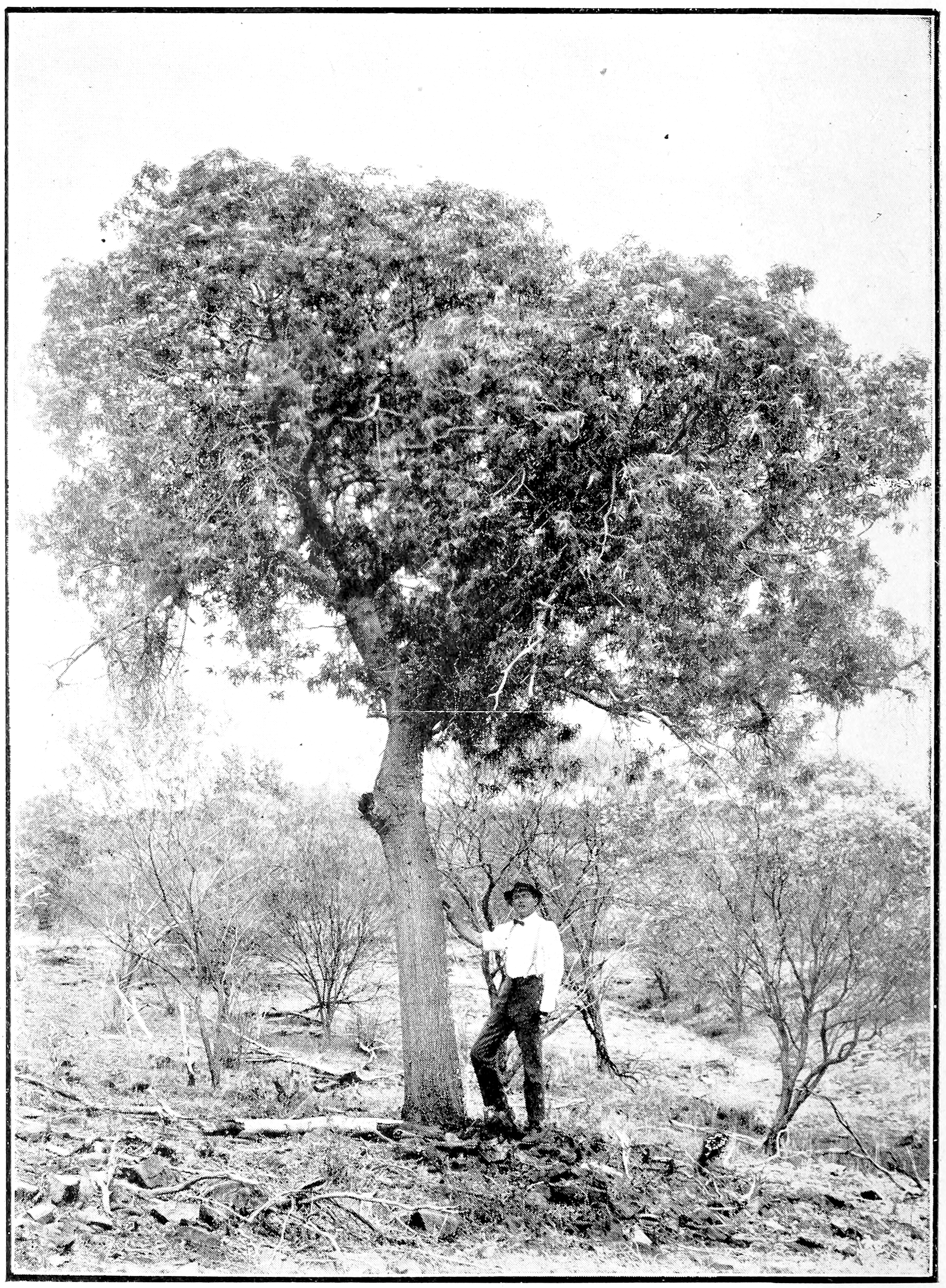 Photograph illustrating source, removed caption in title of image. Categorised by the systematic name given in text, or current synonym in taxonomy at commons.